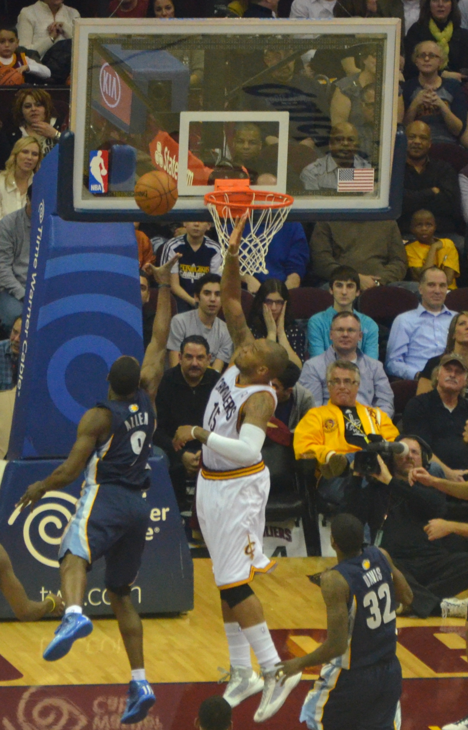 Memphis Grizzlies at Cleveland Cavaliers March 8, 2013